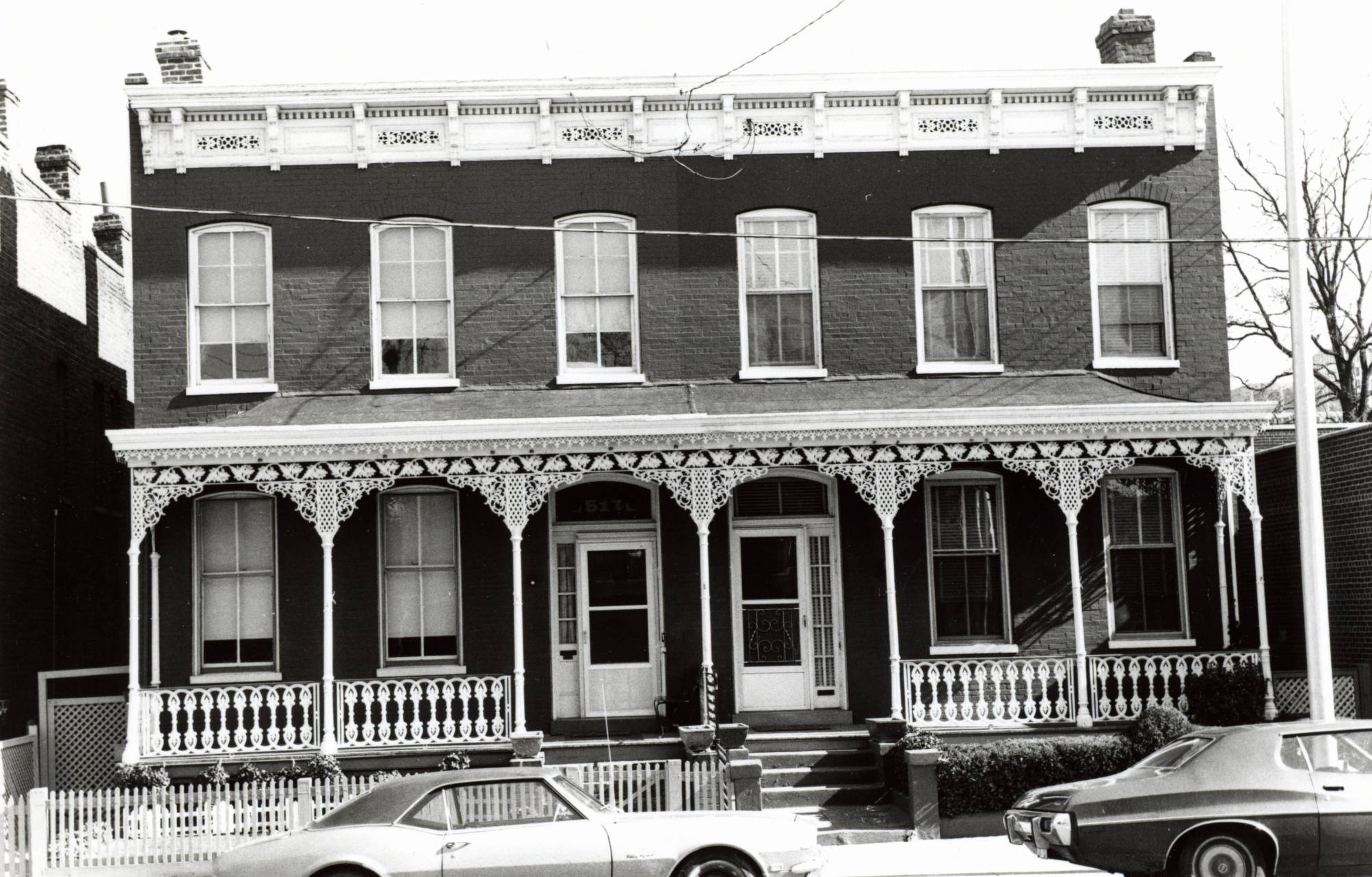 Address/Title: 515 - 517 North Third Street Photographer: Zehmer, John G. (John Granderson), 1942- Original Description (from Book): This is a pair of very fine Italianate houses with fine cornices, segmental arched windows and cast iron railings. In 1884, 515 was the home of John Mitchell, owner and editor of the Richmond Planet, the leader of the Mechanic's Bank and the order of the Knights of Pythias. City/Location: Richmond (Va.) Date of photograph: ca. 1978 Map URL: Original Publication: Zehmer, John G., and Robert P. Winthrop. 1978. The Jackson Ward historic district. Richmond: Dept. of Planning and Community Development. Rights: This item is in the public domain. Acknowledgement of the Virginia Commonwealth University Libraries as a source is requested. Reference URL: Collection: VCU Jackson Ward Historic District